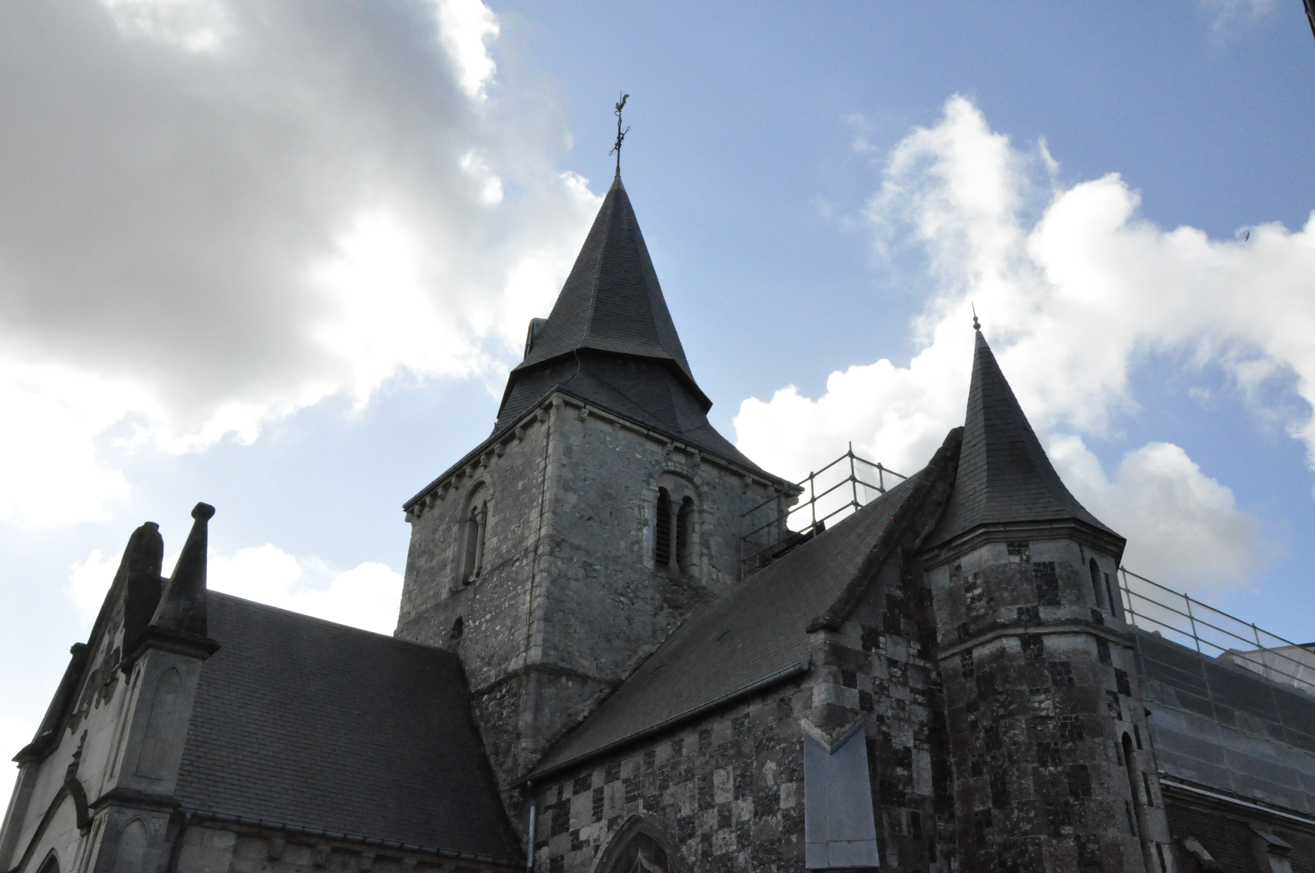 Church of Criquetot-l'Esneval (France, Normandy)